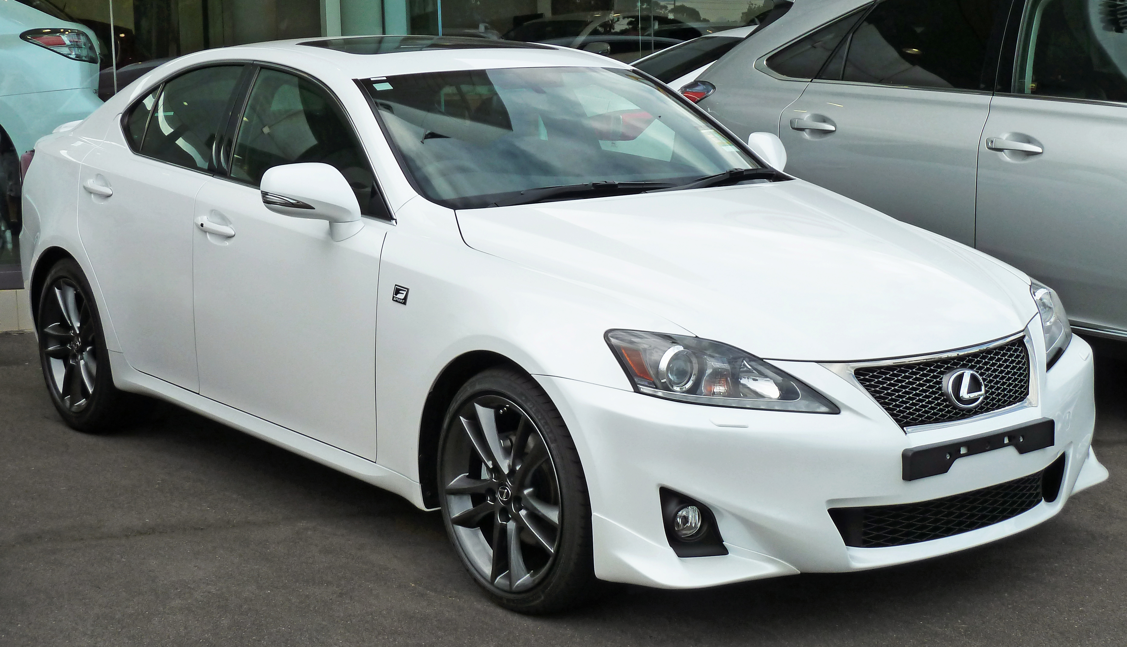 2010–2011 Lexus IS 250 (GSE20R MY11) F Sport sedan. Photographed at Lexus of Sutherland, Kirrawee, New South Wales, Australia.